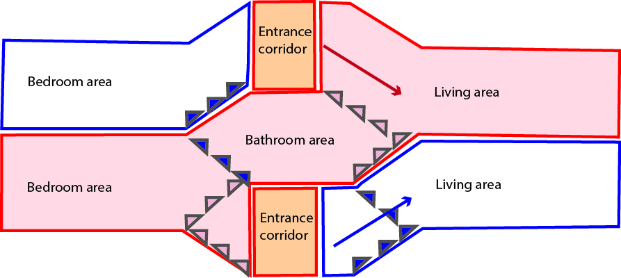 A diagram showing how the scissor section flat layout works